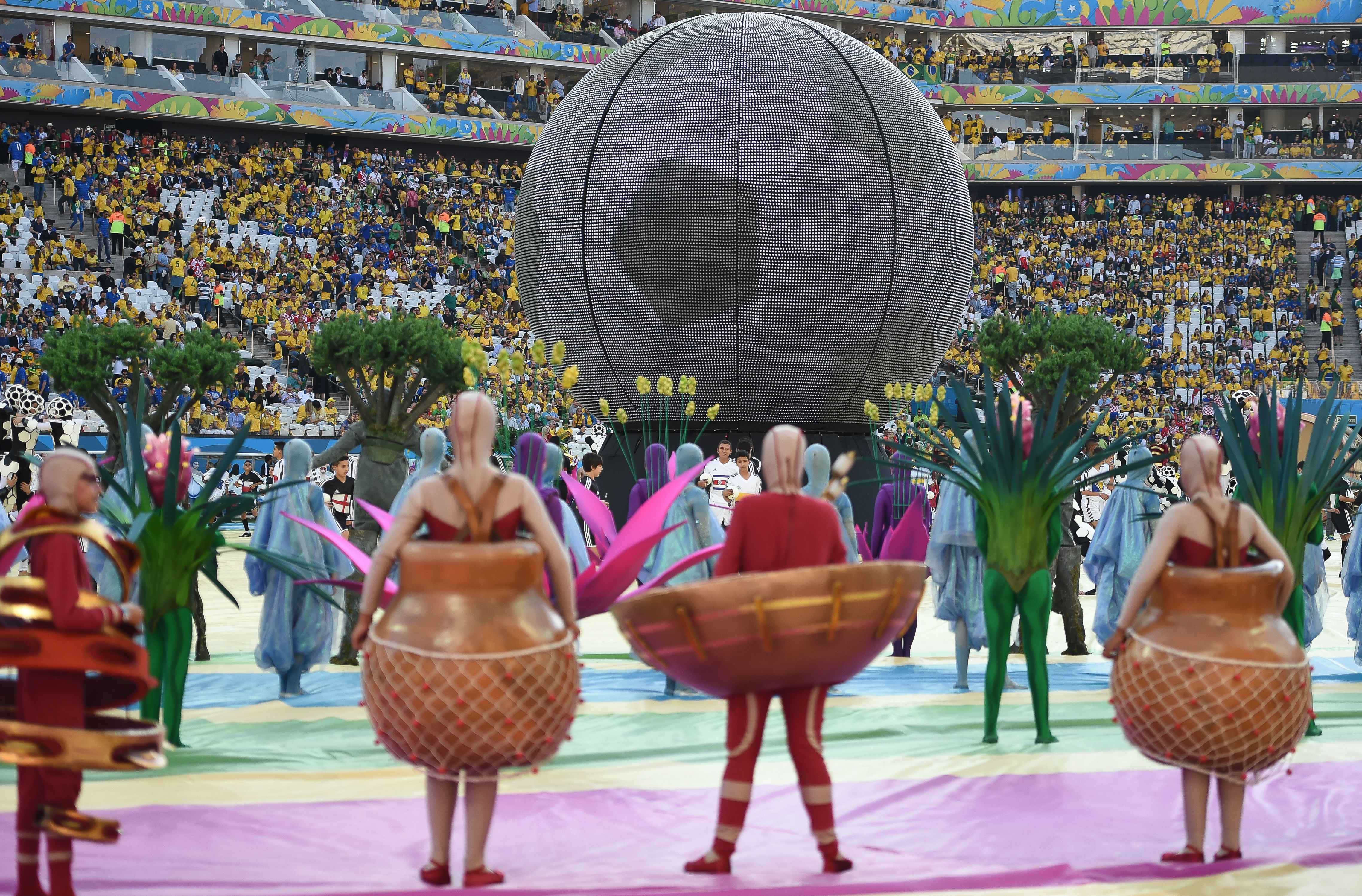 The opening ceremony of the FIFA World Cup 2014